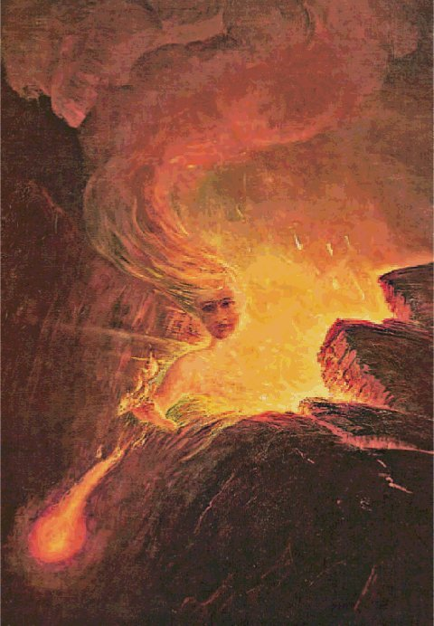 Pele by David Howard Hitchcock, c. 1929, previously displayed in the Kilauea Visitor Center of Hawaii Volcanoes National Park